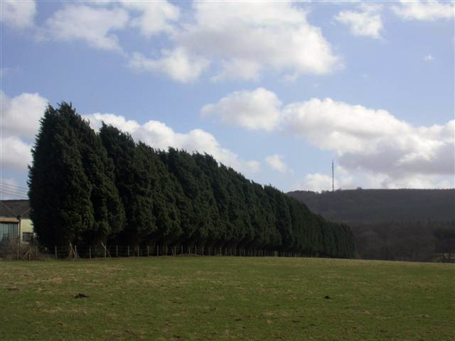 Leylandii. This colonnade of the dreaded leylandii is presumably a windbreak for the greenhouses behind.